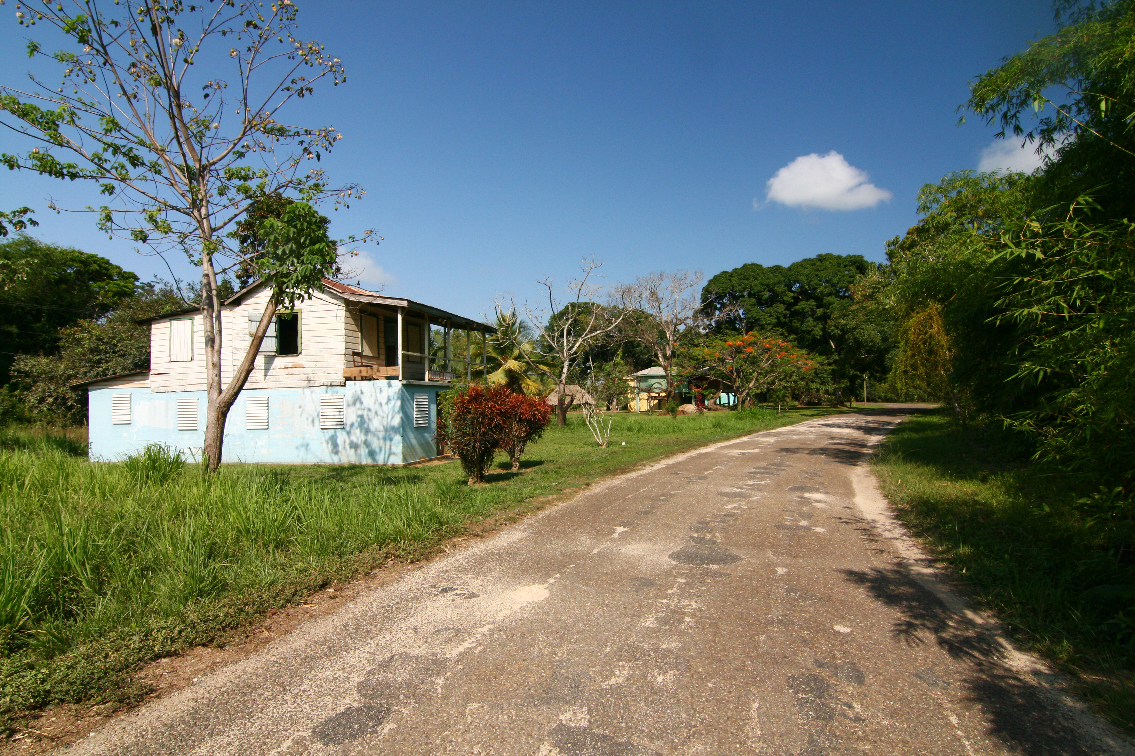 sittee river village Licensing